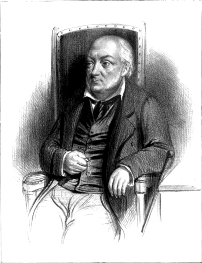 Engraving of Joseph Jacotot (1770-1840), French educator